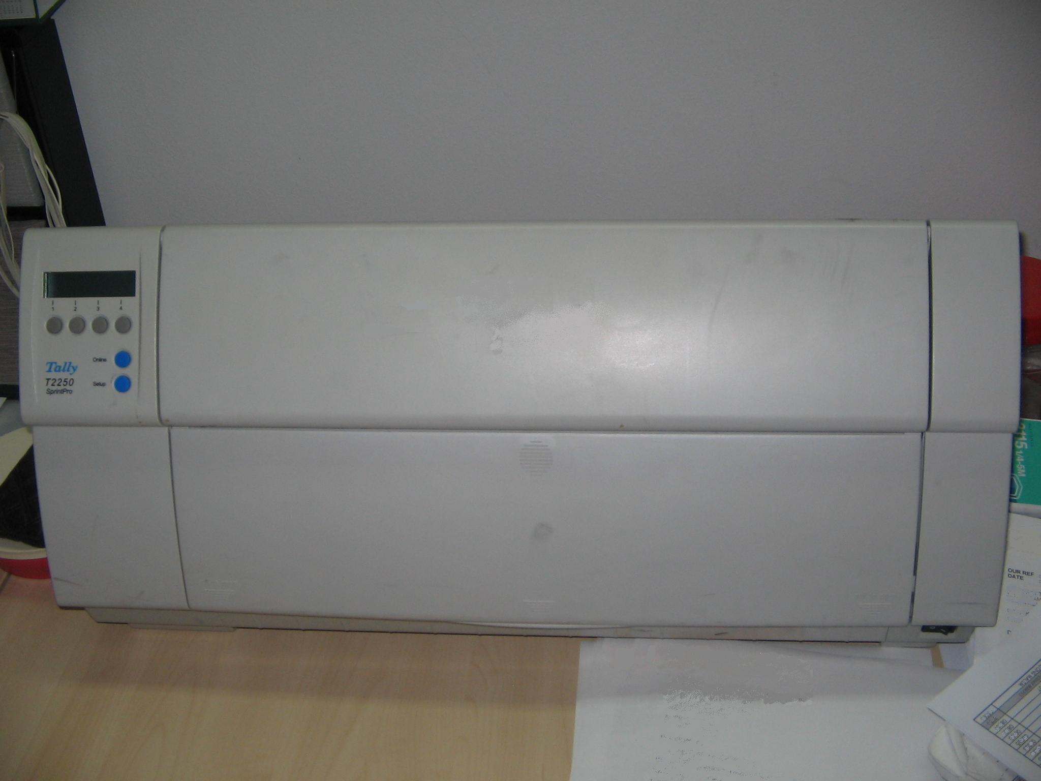 A Tally 2250 SprintPro 24-pin dot matrix printer.